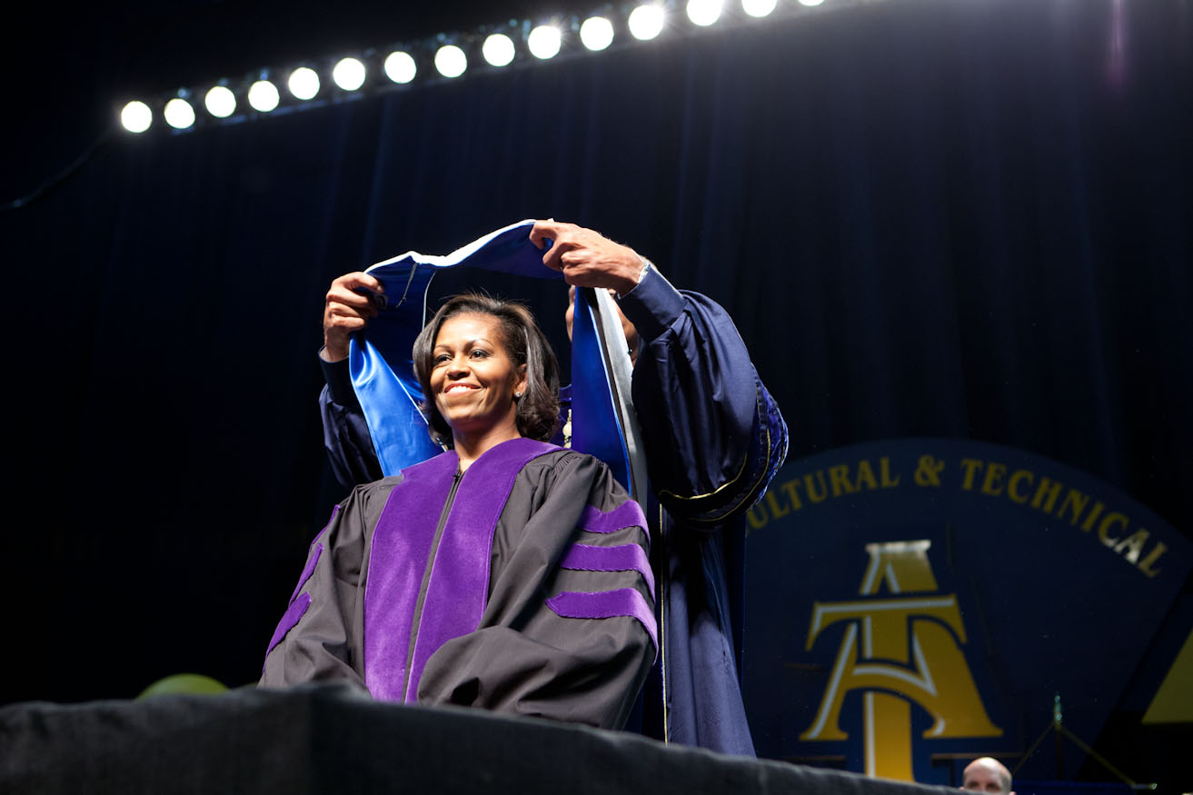 First Lady of the United States Michelle Obama being presented with a hood signifying her honorary degree From North Carolina Agricultural and Technical State University by Chancellor Harold L. Martin Sr. In 2012